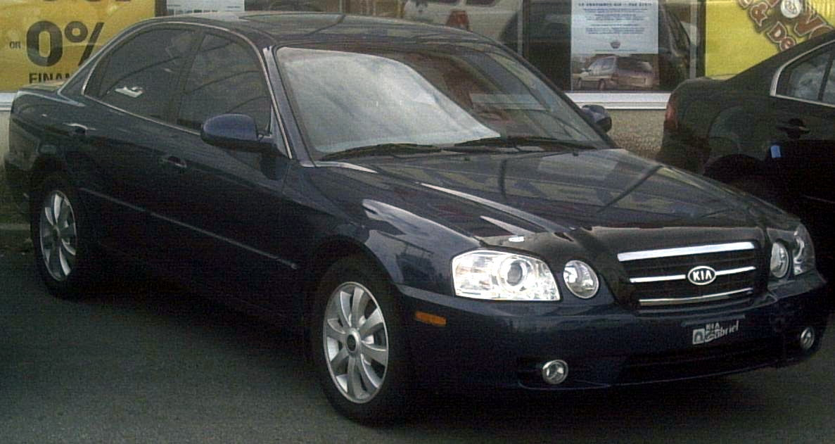 2001-2006 Kia Magentis photographed in Montreal, Quebec, Canada.